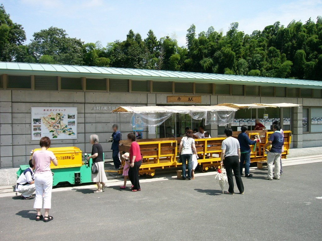 Frontview of Aka station of Heisei-Chikuho railway, Aka village Fukuoka prefecture Japan. In front of the station, a battery locomotive hauled train is parking. This train is for recreational purpose, and its track is on the space for Japanese National Railways Yusubaru line, which was constructed for coal transport but was not completed and cancelled its construction.